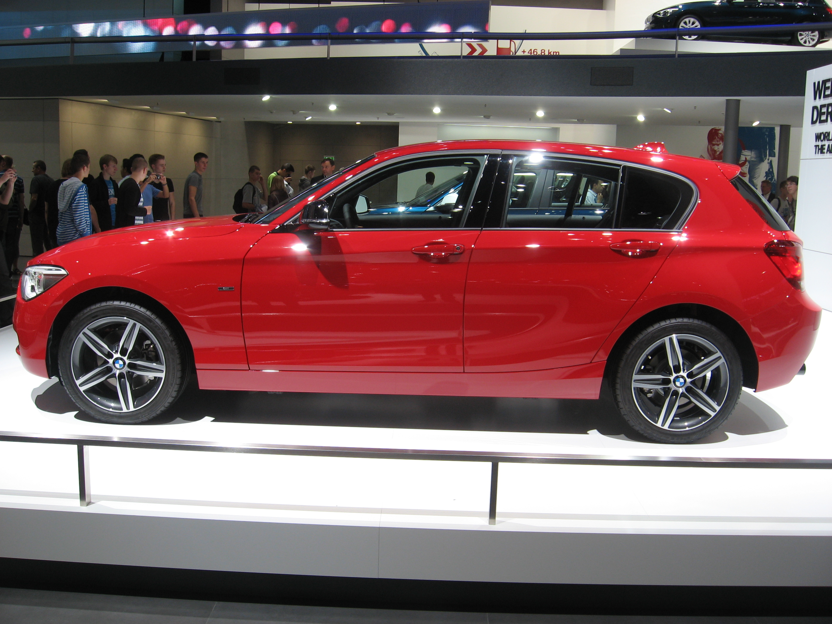 Subject: BMW 118i 5p F20 Date:September 17th, 2011 Event: Internationale Automobil Ausstellung Place/Country: Francoforte sul Meno, Germany I release all rights in the public domain.